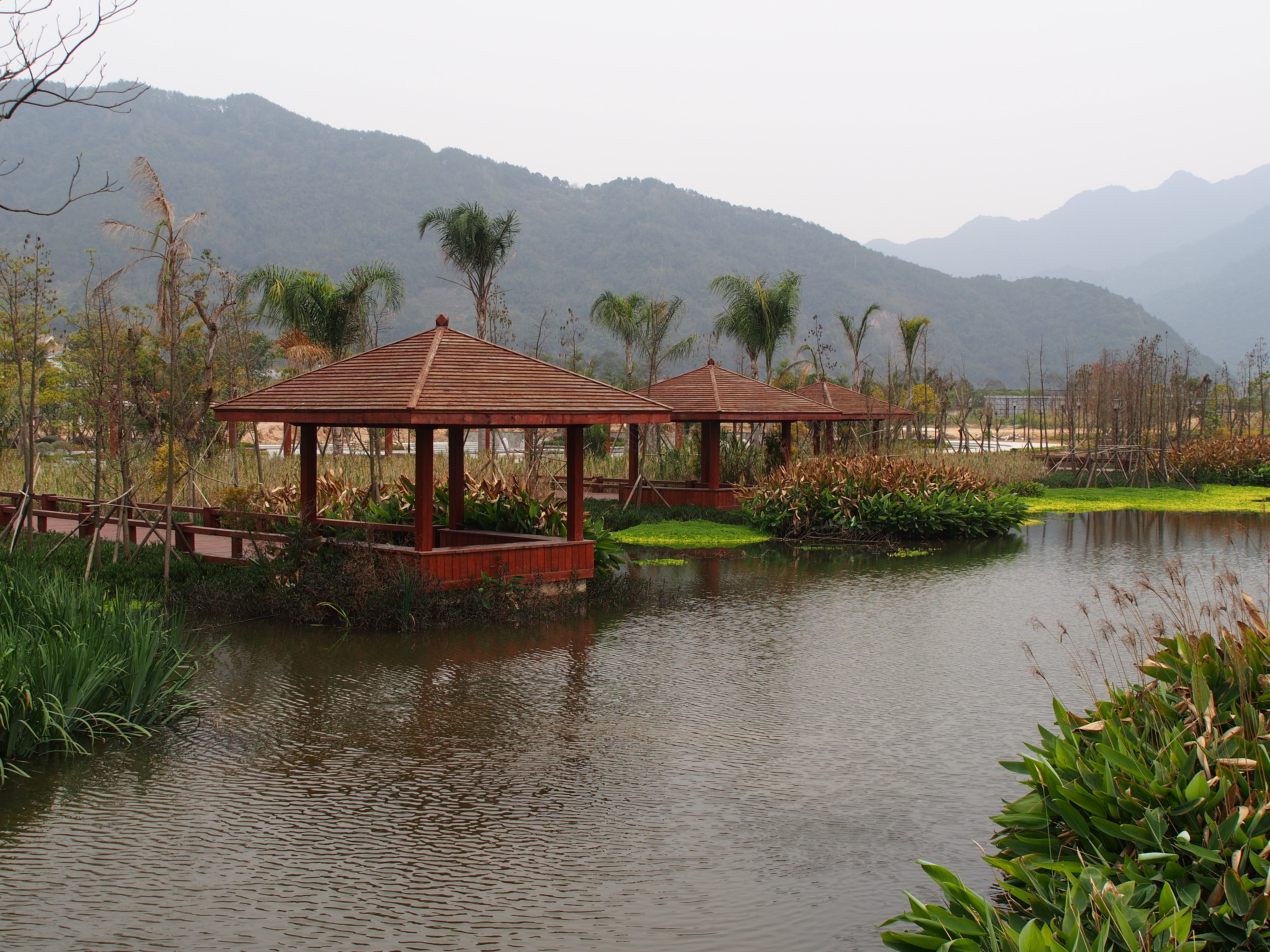 贵安温泉公园 - Gui'an Hot Spring Park - 2014.03